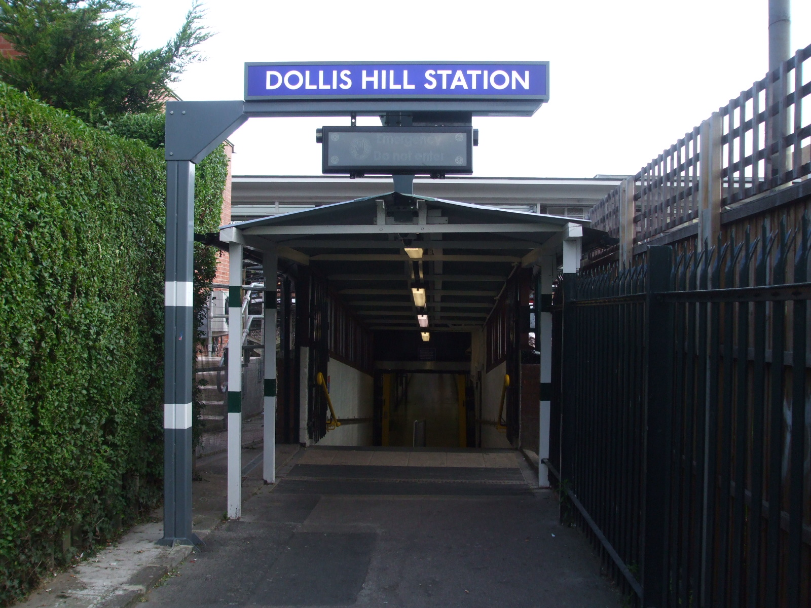 Northern entrance to Dollis Hill tube station